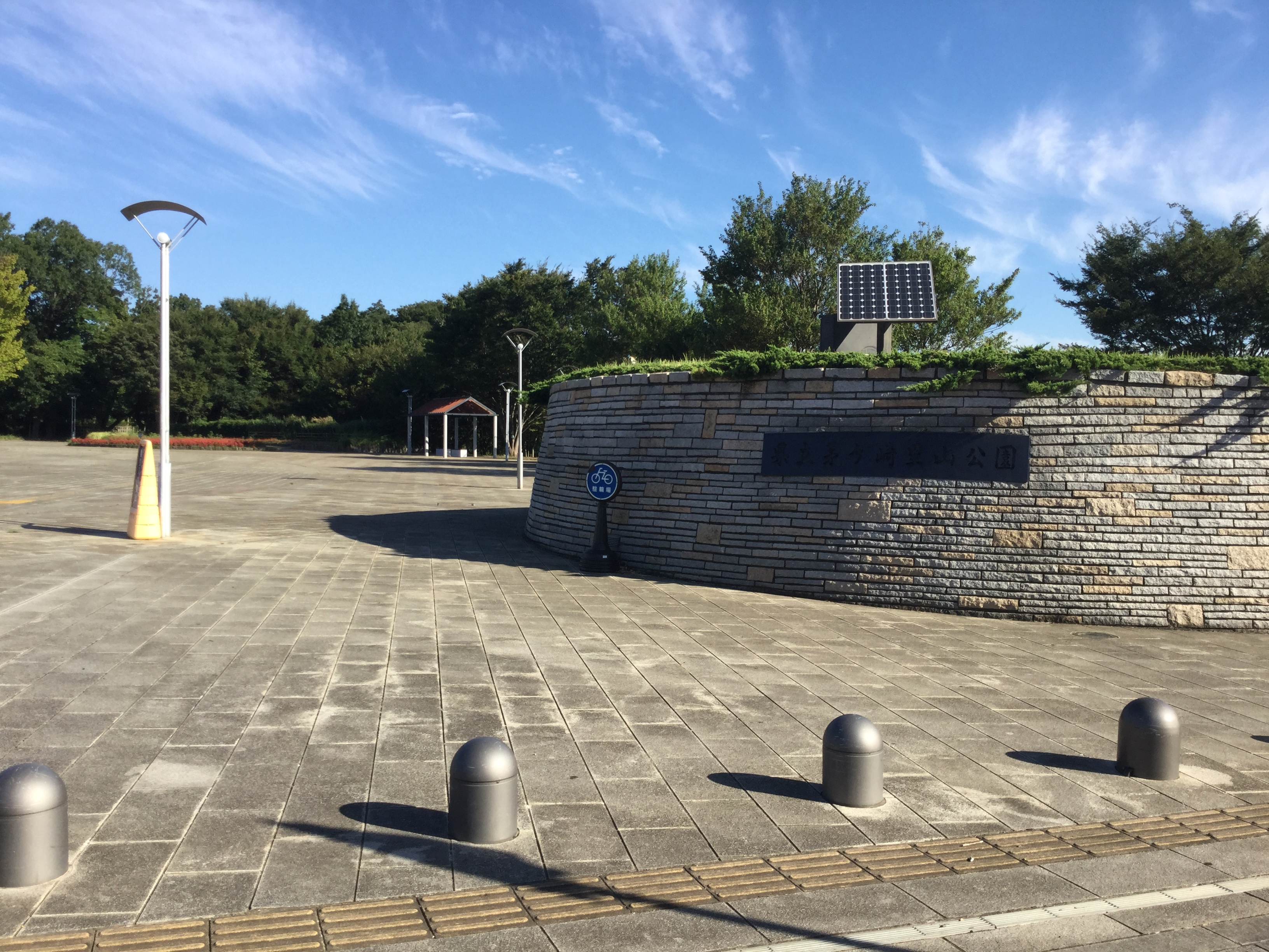 A park in Chigasaki city Kanagawa,Japan.